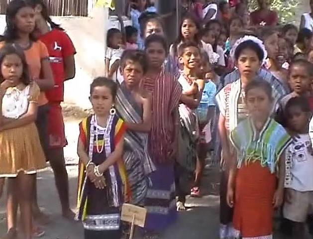 Christmas celebration in Matai 2004